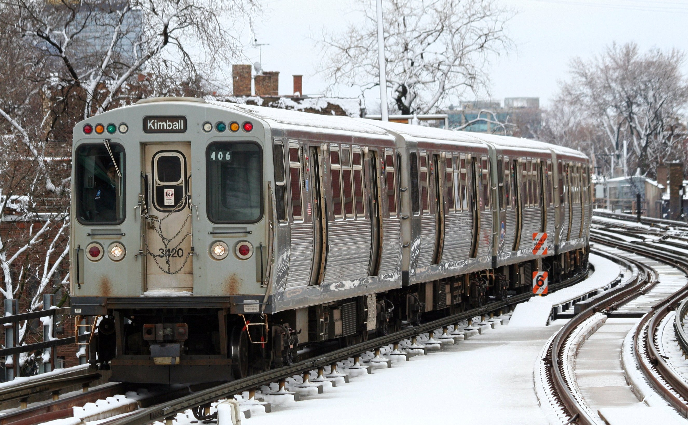 Northbound train enters Belmont.